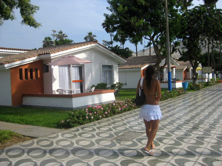 Malecón del club de la FAP (Fuerza Aérea del Perú) Ancón